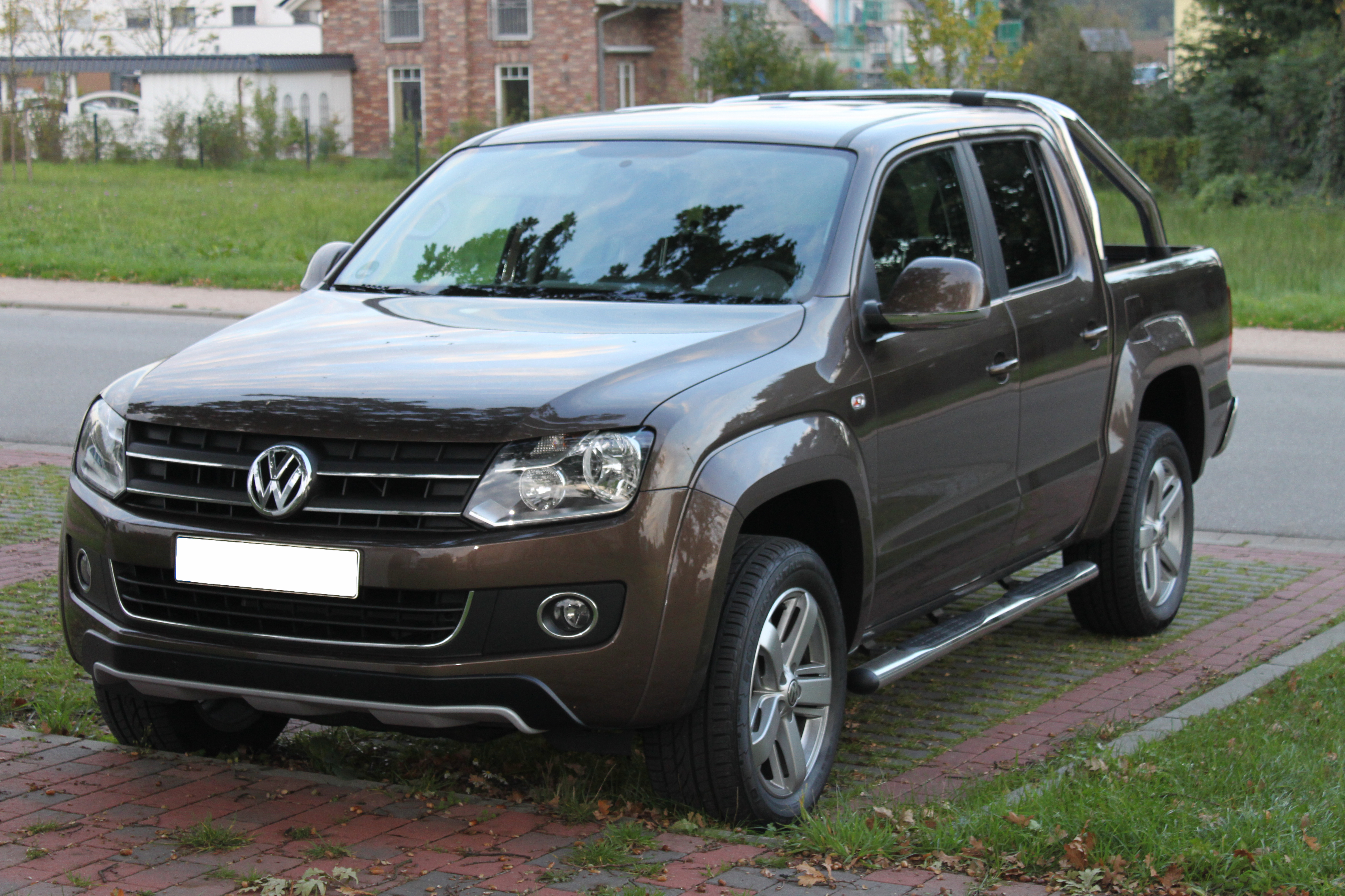 VW Amarok